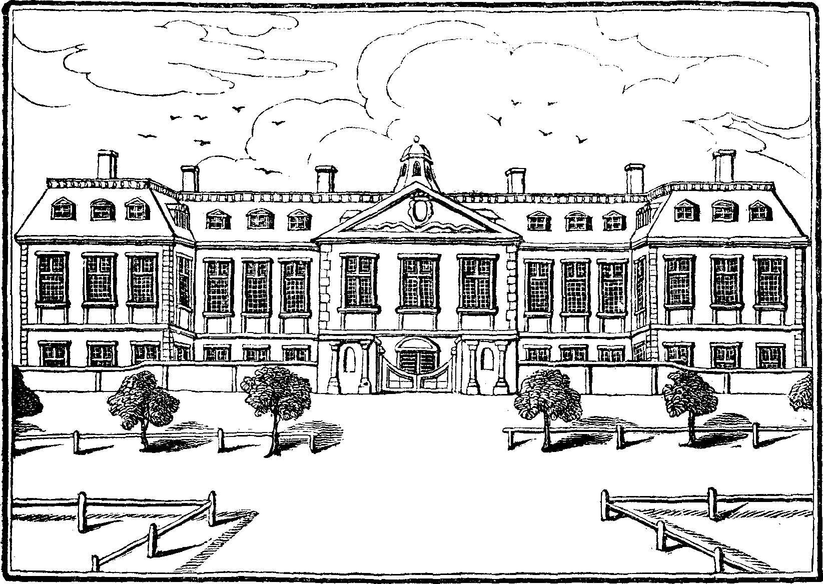 Clarendon House, London. Copy of engraving by Nathaniel Smith and John Thomas Smith of London, copied from an earlier print in collection of Thomas Allen Esq. Published in Smith's "Antiquities of London" 1798. British Museum print dept. no.1880,0911.858 (see original engraving: File:ClarendonHouseLondon1798EngravingSmith.JPG).